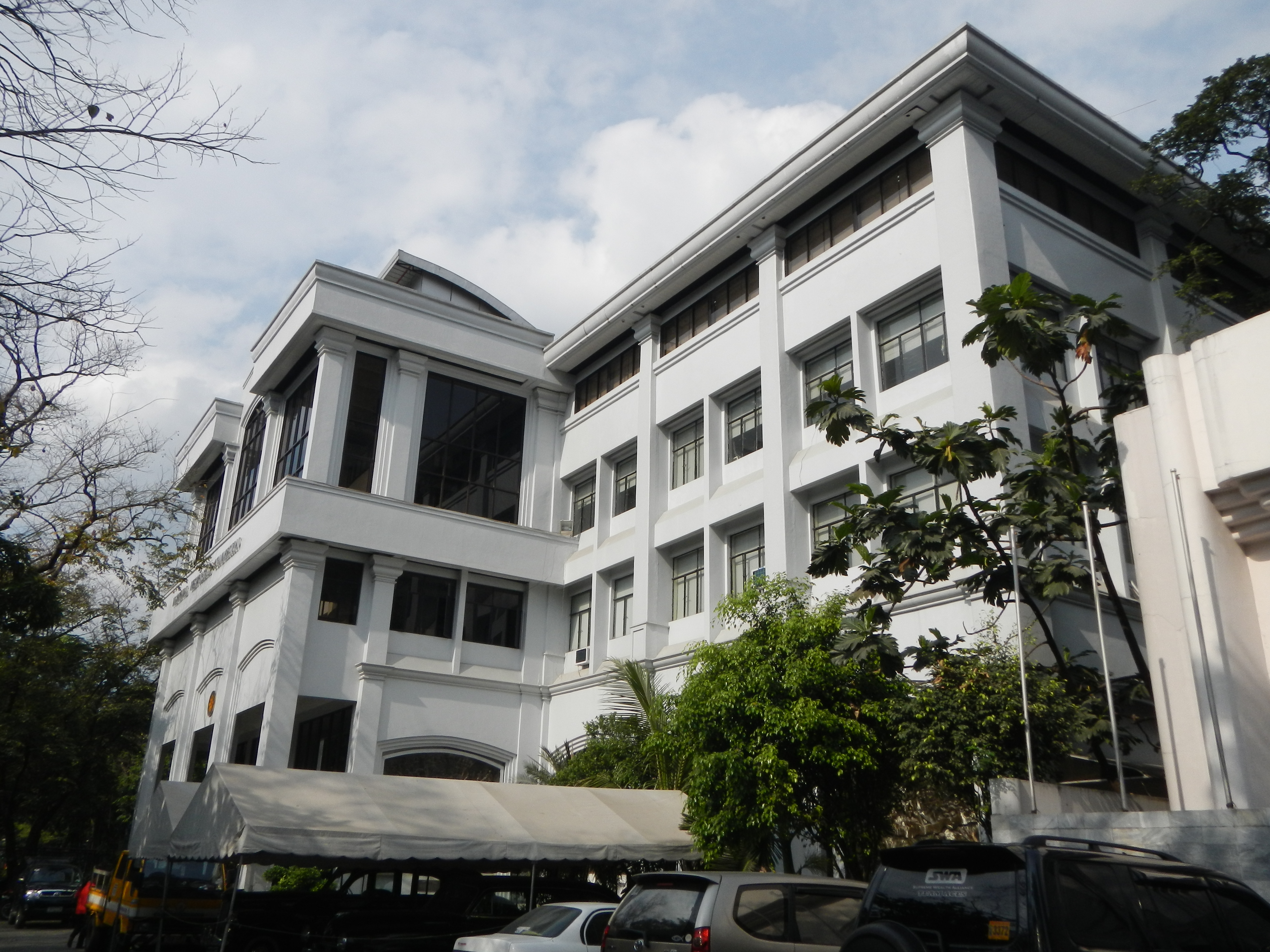 Upload Wizard photos of - Malate, Manila [1] - a) The Aristocrat Restaurant since 1936 along Roxas Boulevard [2] founded by Engracia Cruz-Reyes [3] a Filipino chef and entrepreneur an active promoter of Filipino cuisine, married to Alexander Reyes, who in 1948 would be appointed as an Associate Justice of the Philippine Supreme Court - beside Manila Bay[4] b) Plaza Rajah Sulayman and c) National Historical Commission of the Philippines.